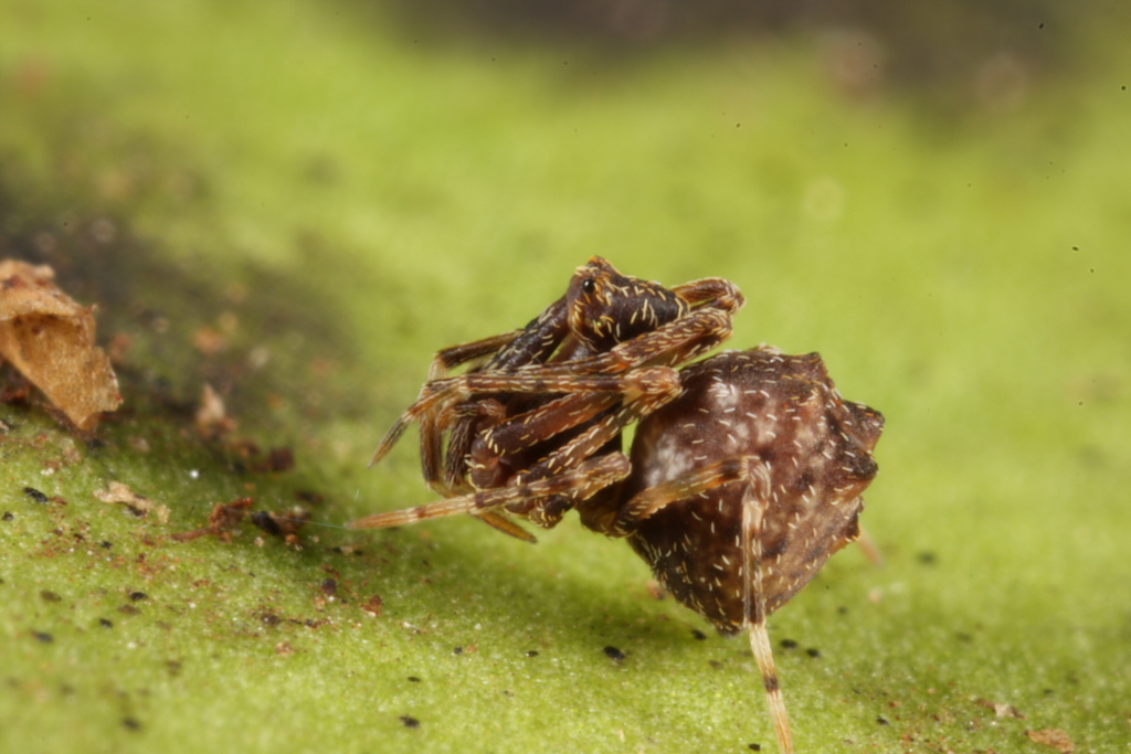 Austrarchaea sp., image taken in The Gap, Brisbane, QLD, Australia